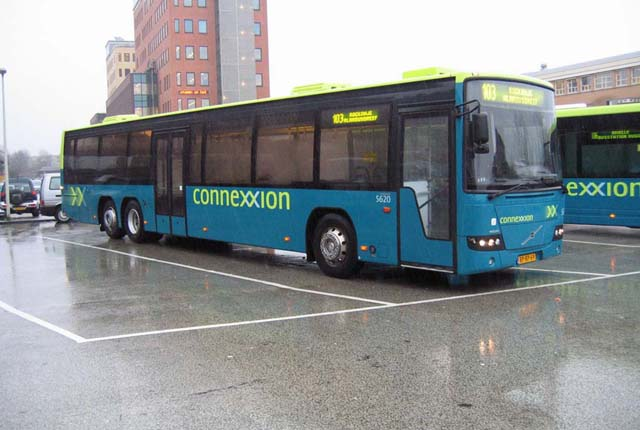 Volvo 8700 6x2 bus (reg. BP-BP-69, #5620) in the Netherlands. Connexxion from Hilversum operator.